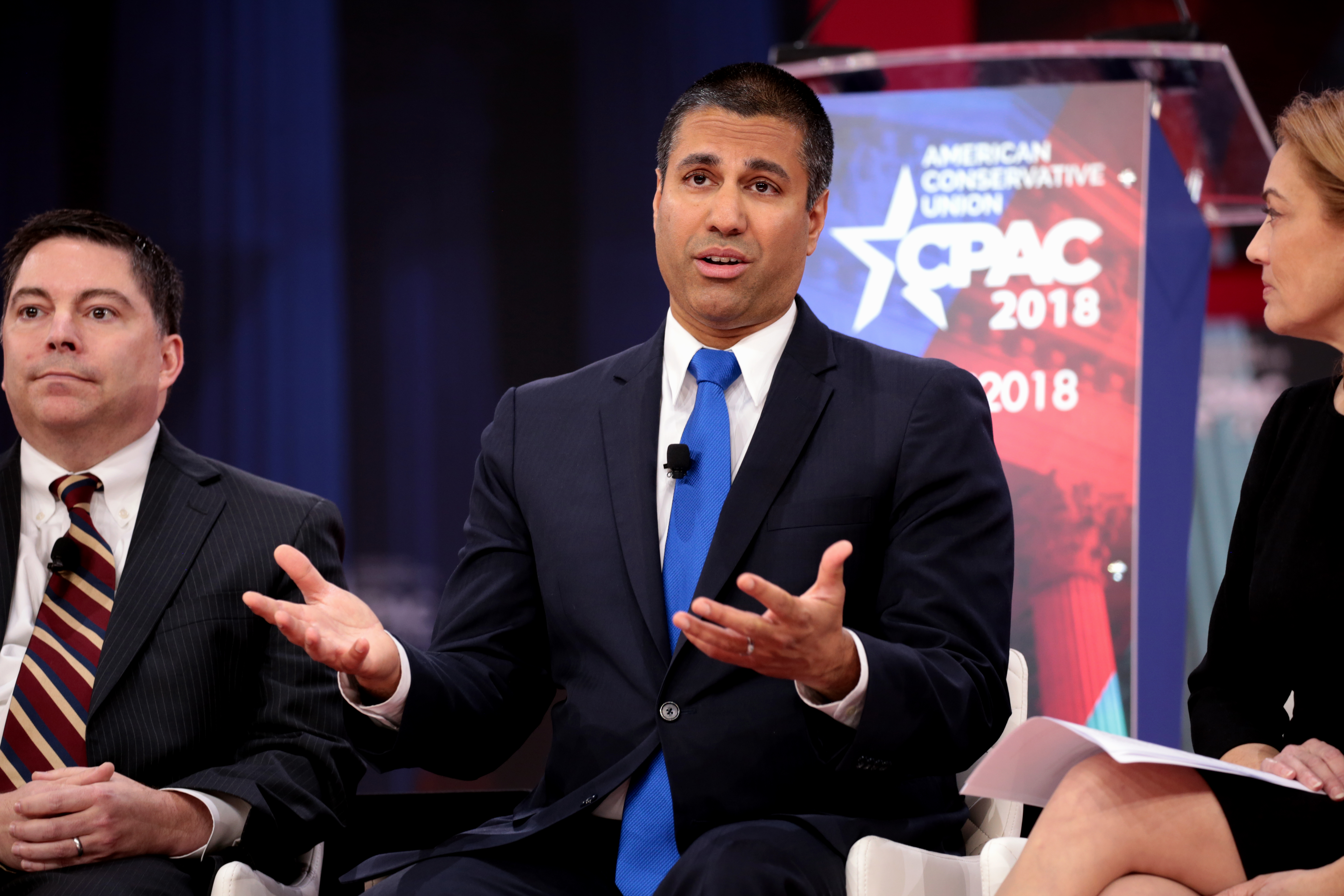 FCC Commissioner Brendan Carr and FCC Chairman Ajit Pai speaking at the 2018 Conservative Political Action Conference (CPAC) in National Harbor, Maryland.